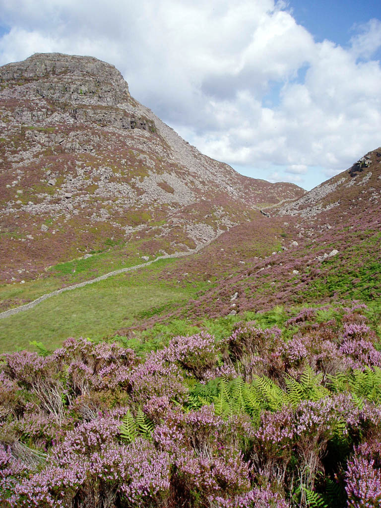 The southeast shoulder of Rhinog Fawr above Bwlch Drws-Ardudwy, Snowdonia National Park, Wales